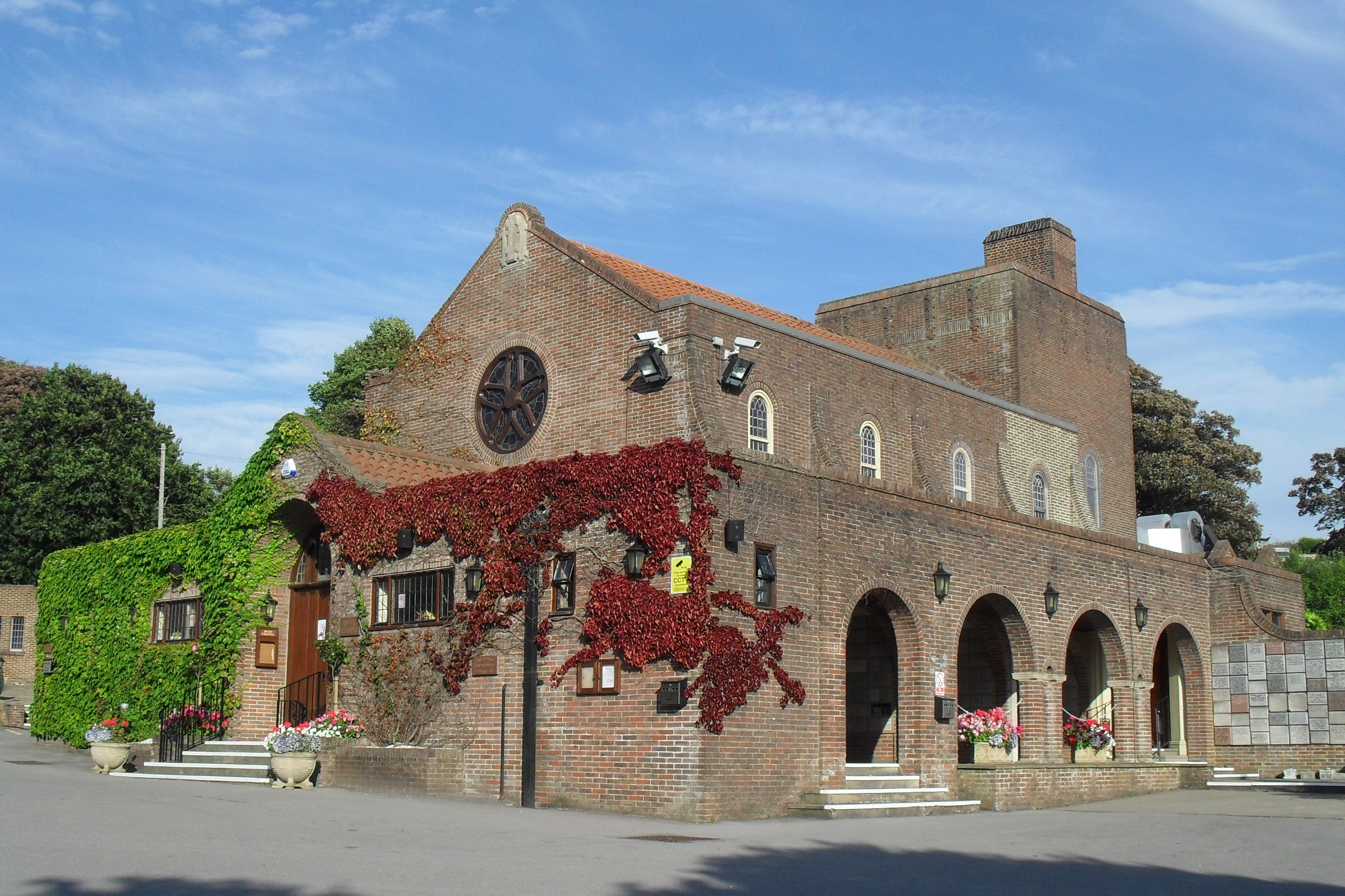 Downs Crematorium Chapel, Bear Road, City of Brighton and Hove, England. A privately run crematorium opened in 1941.